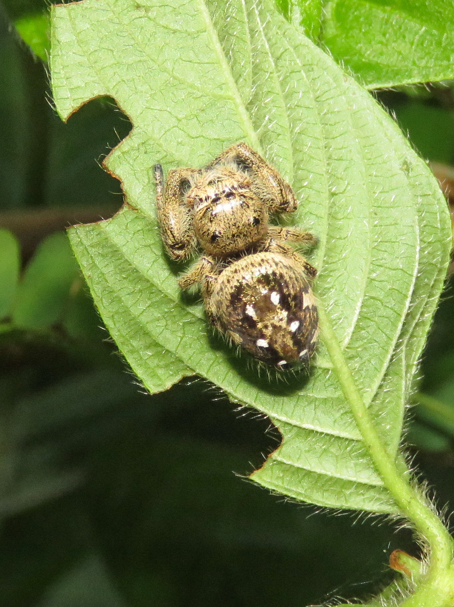 Parnaenus cyanidens. Species of arachnid.